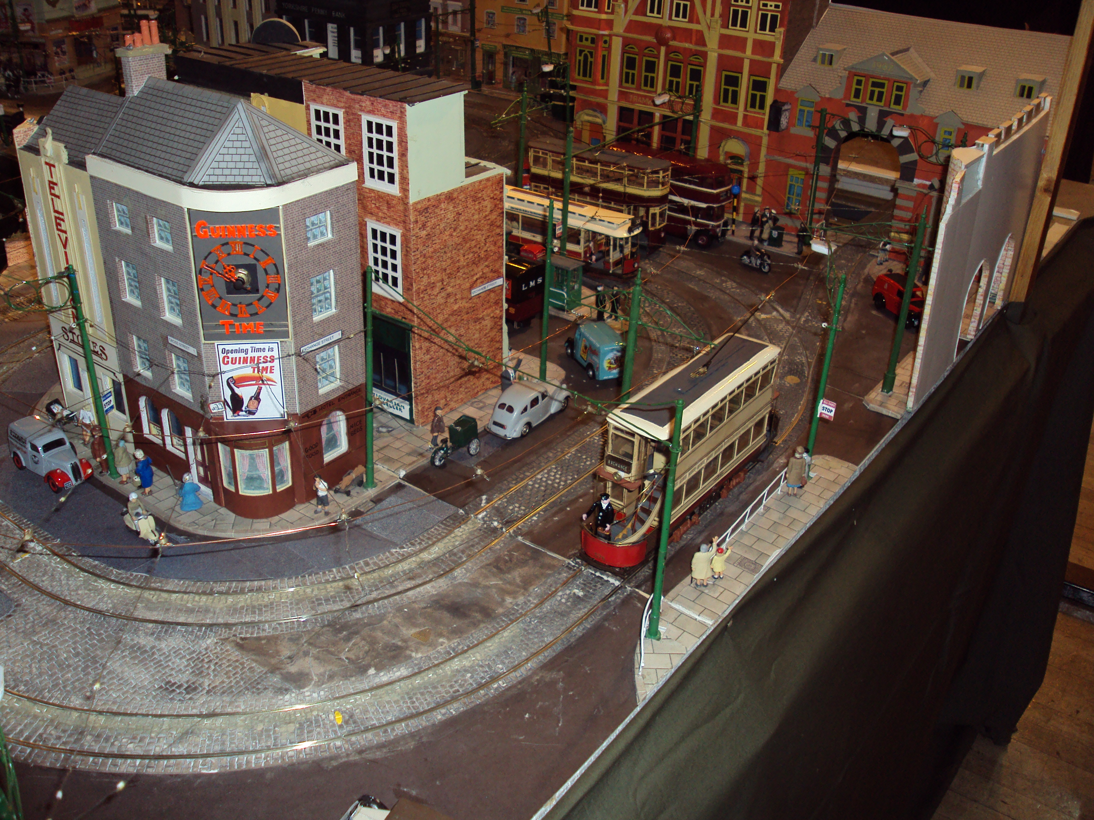 Photo taken at the 44th annual exhibition of the Blackburn & East Lancs Model Railway Society held in October 2009 at King Georges Hall, Northgate, Blackburn, Lancashire, England.